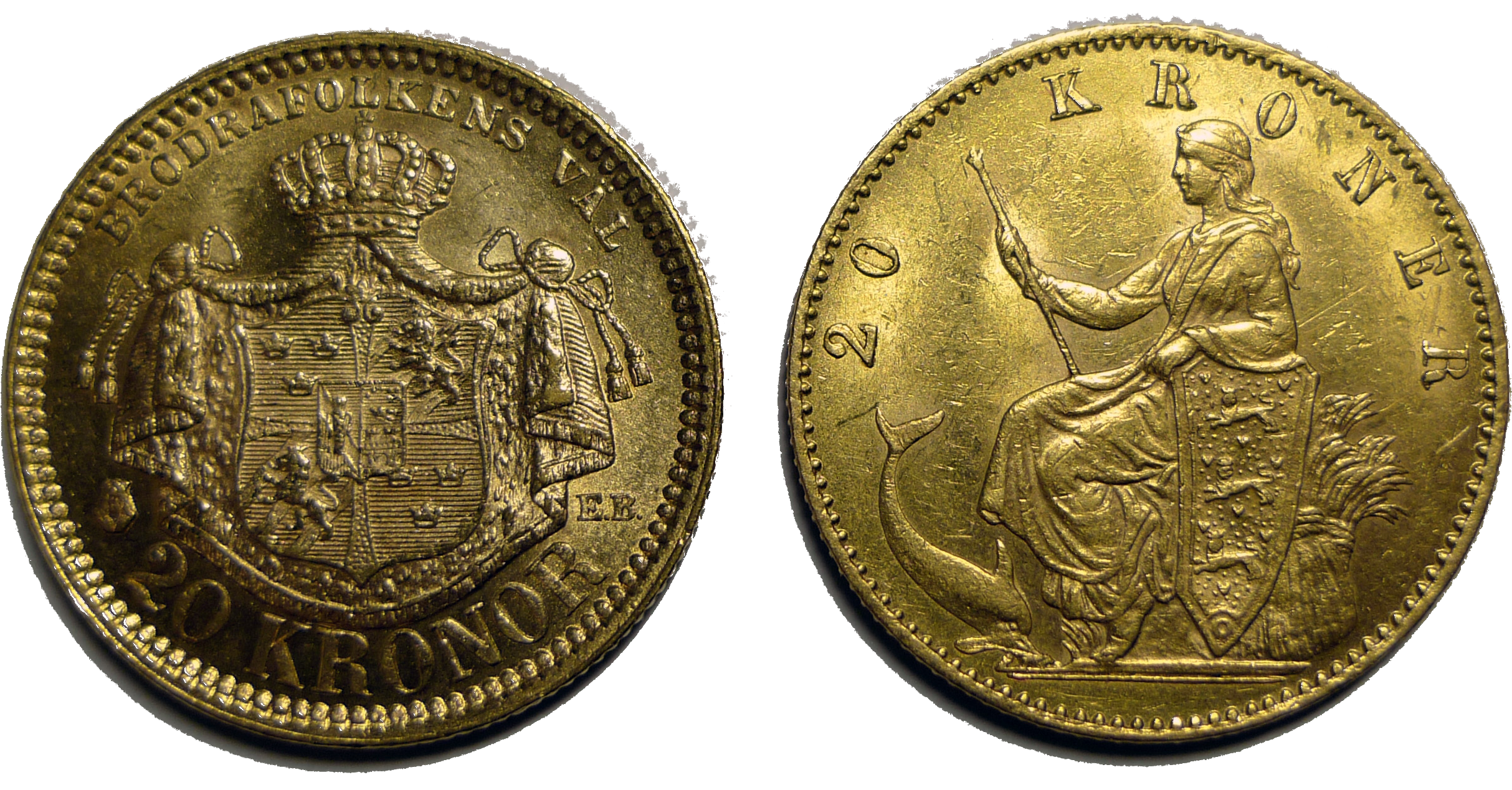 Two 20kr gold coins from the time of the Scandinavian Monetary Union. The left one is Swedish, and the right one is Danish.